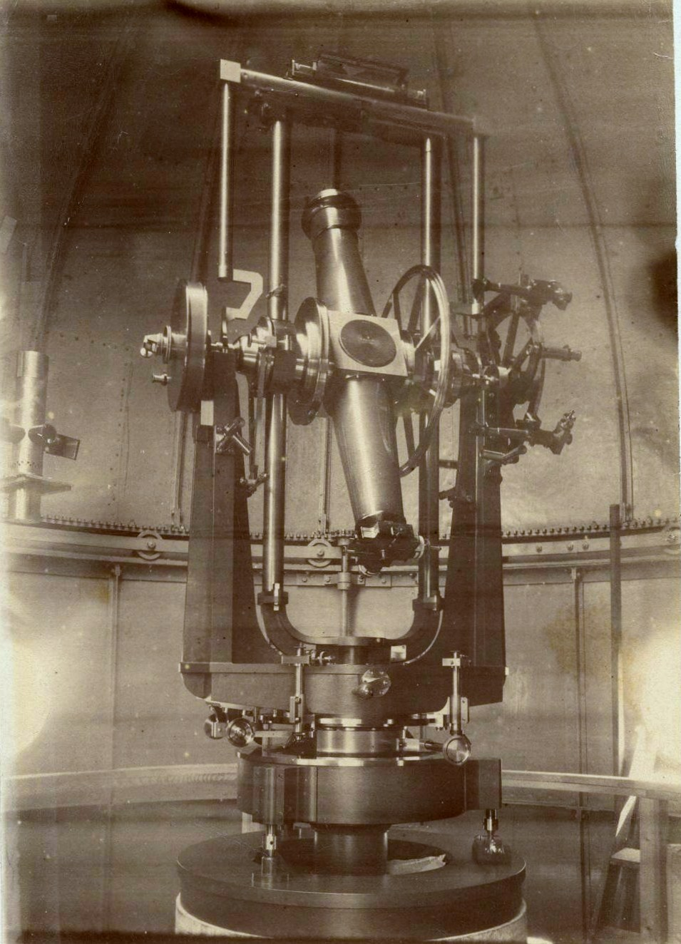 The altazimut of the Observatory of Besançon (Doubs, France), probably at the end of the 19th century.